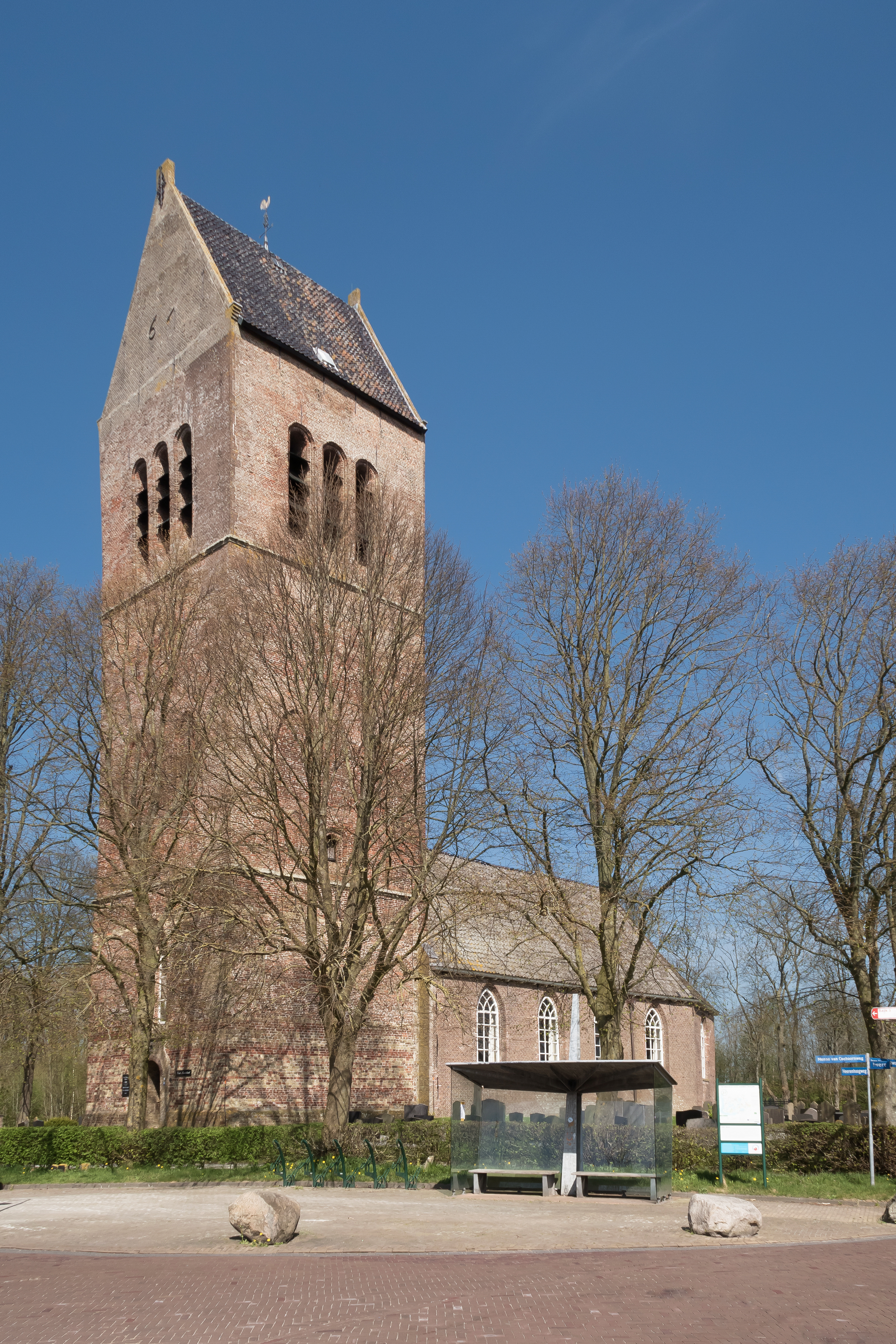 Wijckel, church: de Vaste Burchtkerk